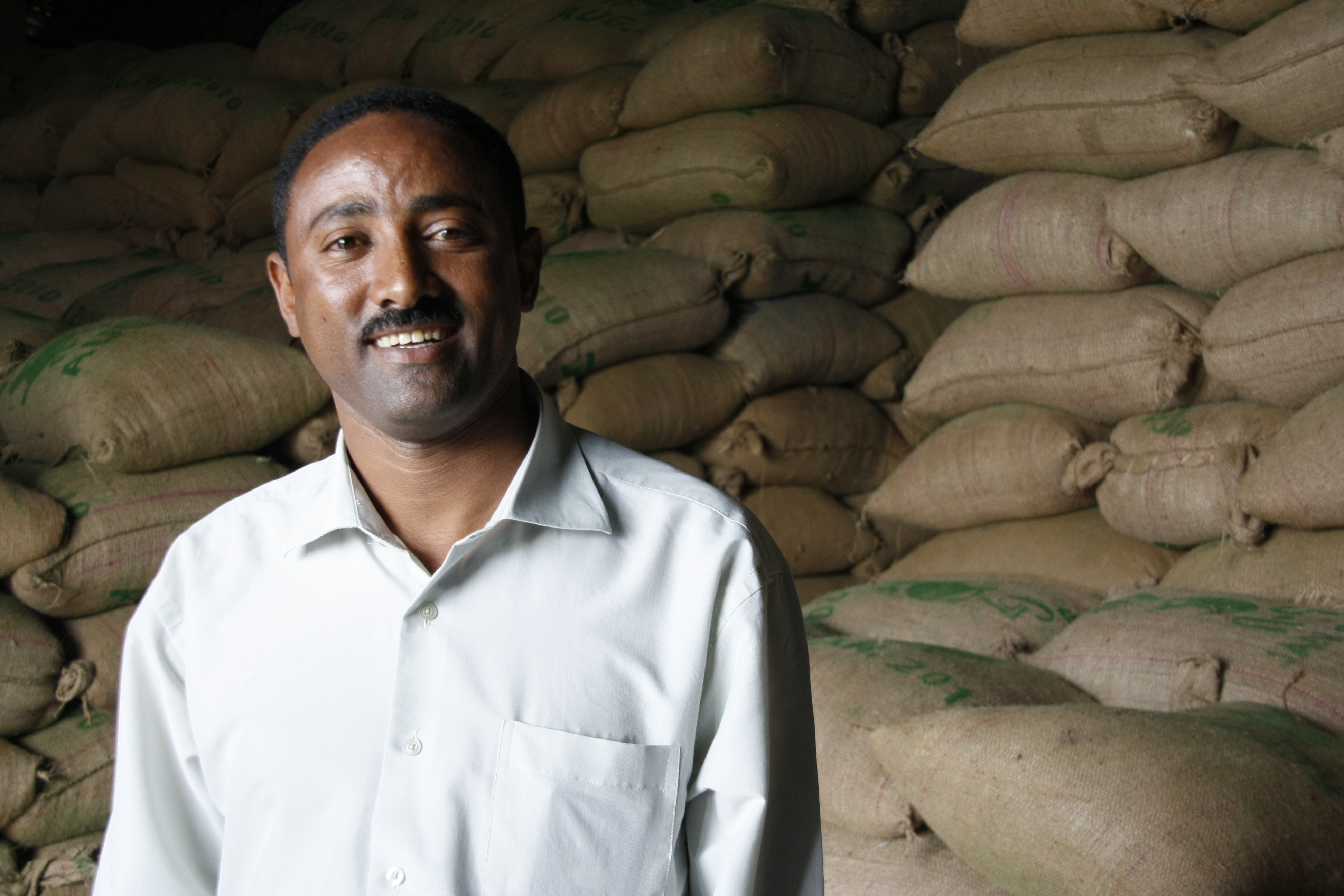 Yihenew Tsegaye, manager of the Ethiopia Commodity Exchange's Awassa warehouse. Yihenew oversees the whole process, from the moment the seller delivers the coffee to the moment the buyer picks it up. Once the coffee has arrived and been tested for quality, it is unloaded into the warehouse. Yihenew sends an electronic despatch note to the Ethiopia Commodity Exchange headquarters in Addis Ababa detailing the quantity and quality of the stock. If the stock is brought to the warehouse in the morning, it is traded the same day in Addis.